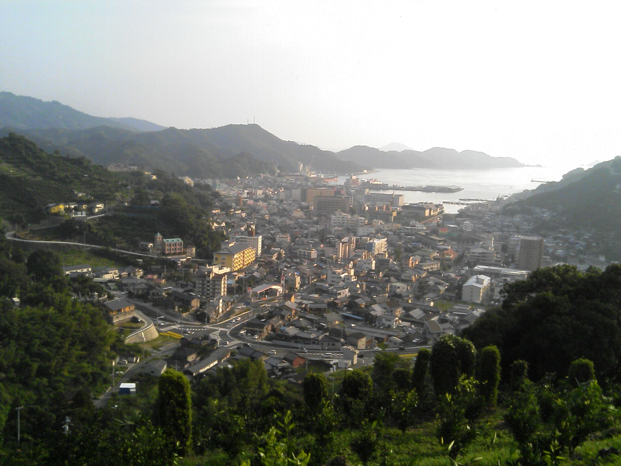 Yawatahama, Japan, from atop a nearby mountain